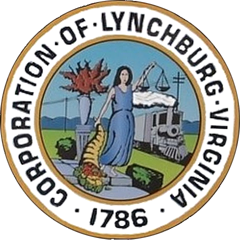 Seal of Lynchburg, Virginia